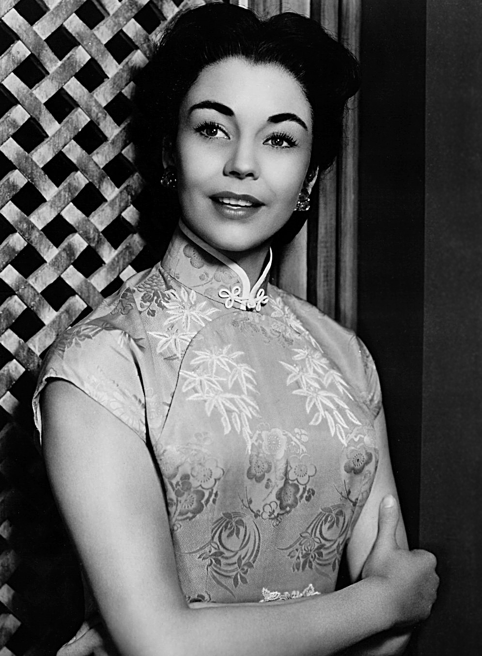 Original studio publicity photo of Jennifer Jones for film Love is a Many Splendored Thing